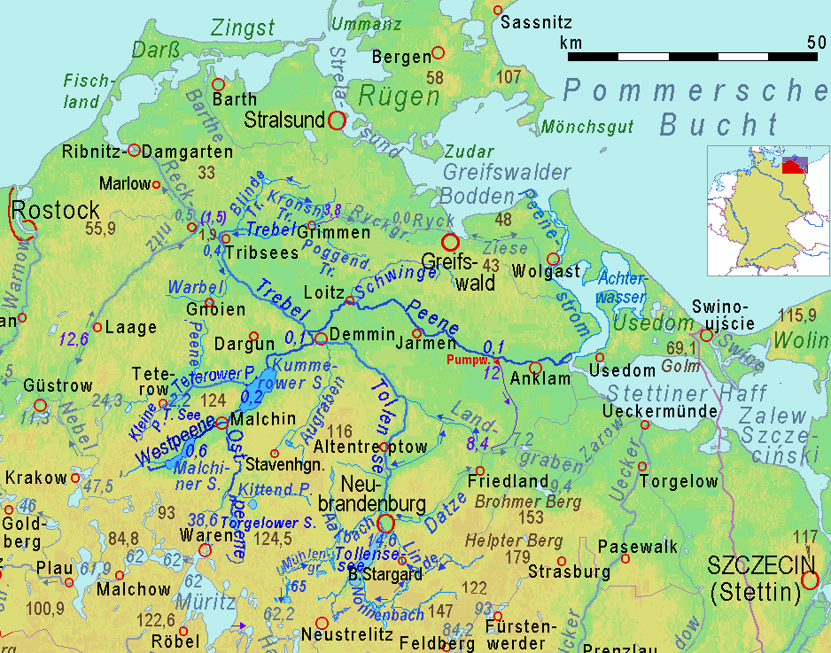 Peene River and its affluents in a cut of a relief map of Mecklenburg-Western Pomerania:Brown figures = soil above sea level in meters (measure at the point, name above or below)dark blue figures = water level above sea level in metersdark blue arrows = direction of water flow,emphasized rivers drawn in stronger colours,lilac = water bodies crossing divides